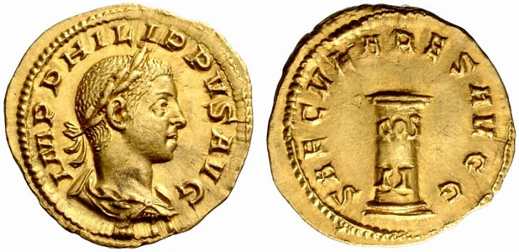 Philippus II, 247–249, Aureus circa 248, 4.90 g. IMP PHILIPPVS AVG Laureate and draped bust r. Rev. SAECVLARES AVGG Low column inscribed COS / II. RIC 225. C 77. Vagi 2133. Calicó 3279 (this coin).